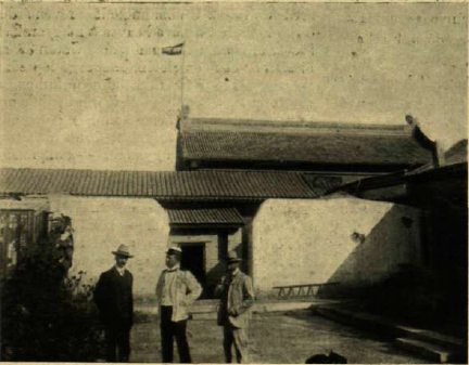 Published in the weekly periodical newspaper called Vasarnapi Ujság by the printing press inc. Franklin Irodalmi és Nyomdai Rt. in 1904. Photos taken and owned by Head engineer of Ganz Enterprises Geza Szuk while being comissioned in Tianjan between July 1903 and February 1904. The photo depicts Hugo von Acurt.